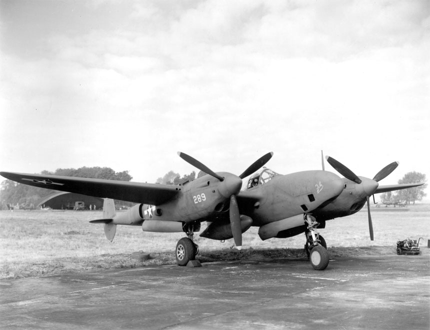 A second view of the F-5A Lightning serial number 42-13289 nicknamed "Zola". This example was based upon Lockheed P-38G Lightning and served with the 7th Photographic Reconnaissance Group (PRG) based at Mt. Farm in Oxfordshire, England.